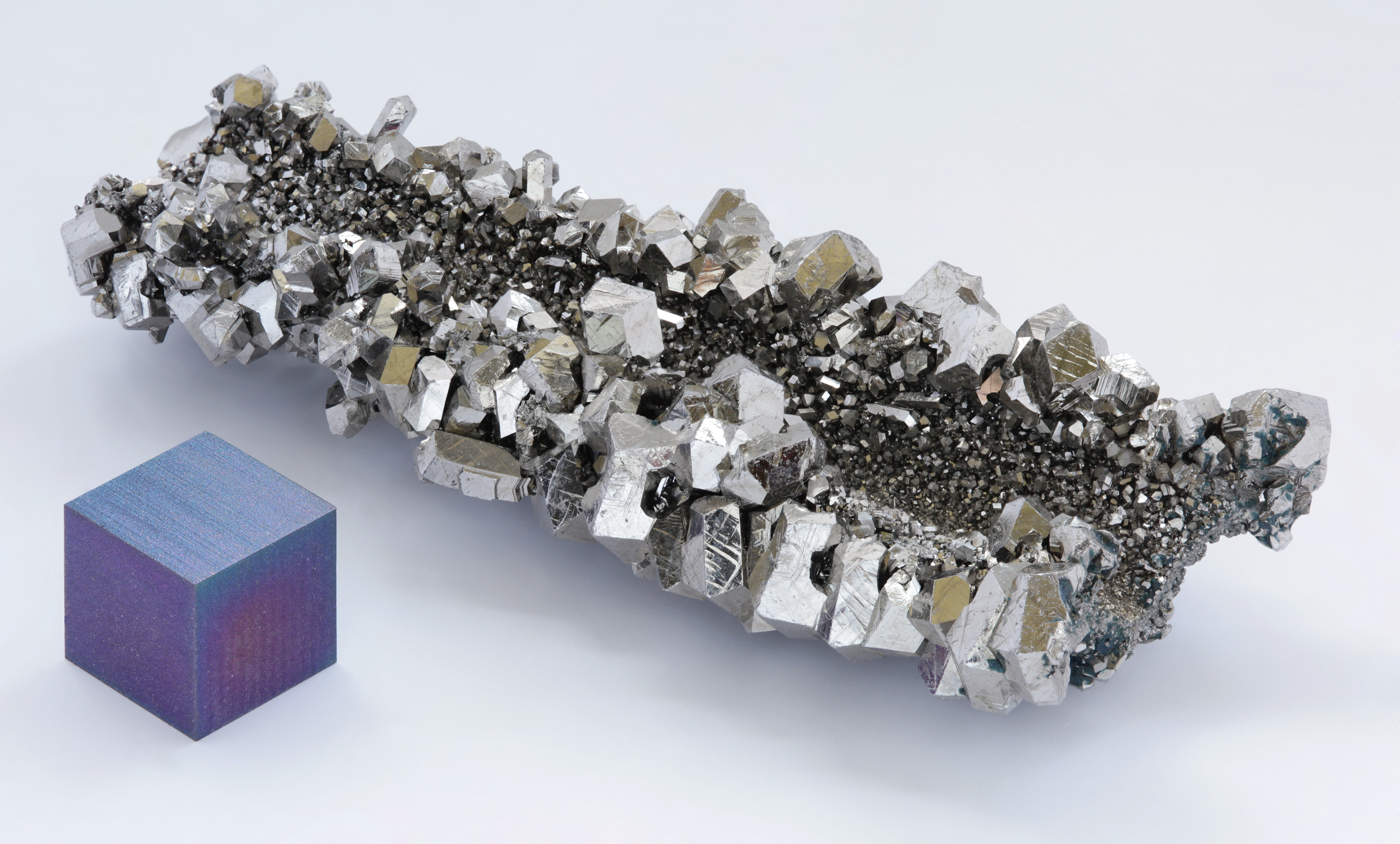 High purity (99.995 % = 4N5) niobium crystals, electrolytic made, as well as a high purity (99.95 % = 3N5) 1 cm3 anodized niobium cube for comparison.